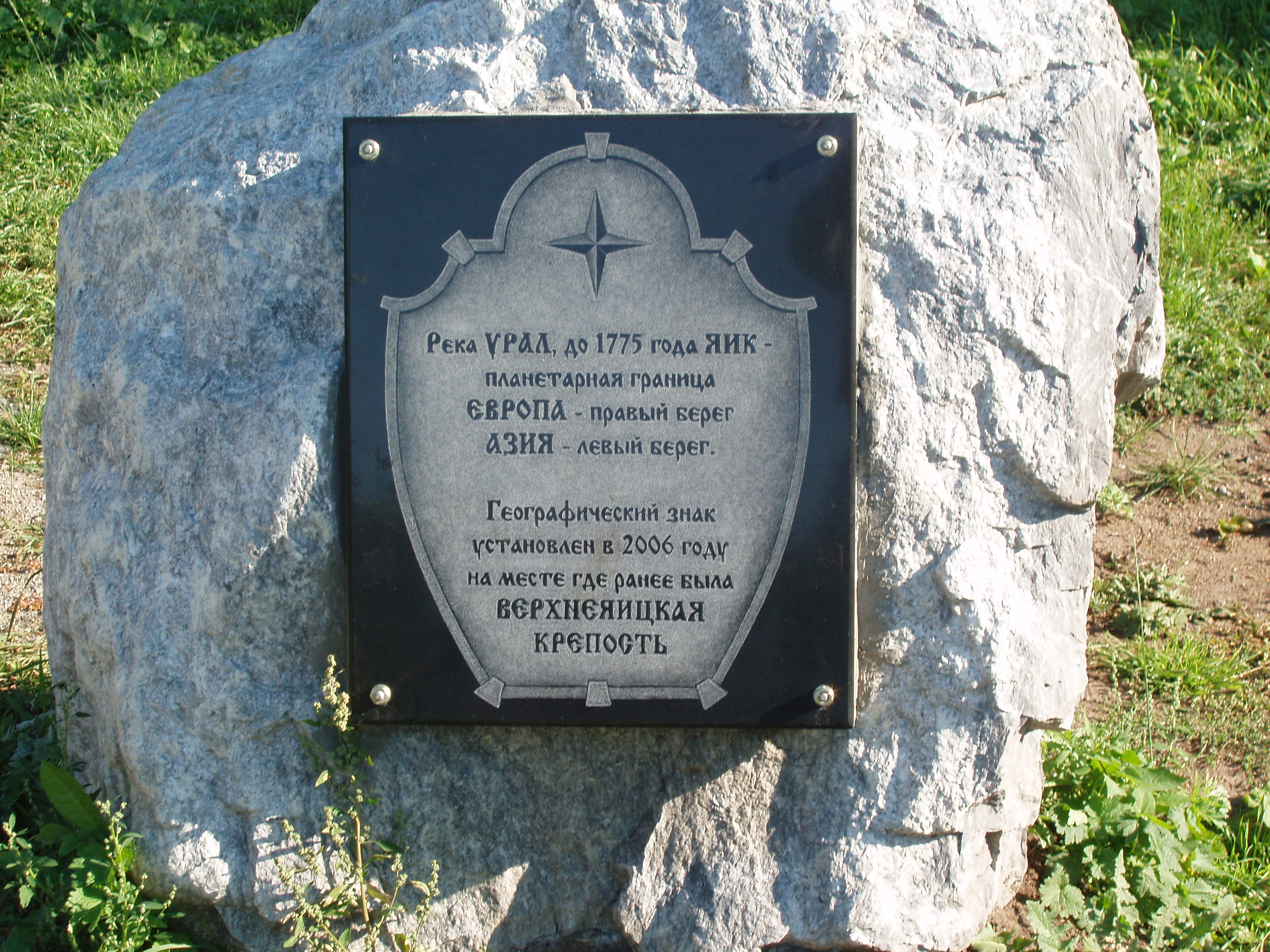 Monument "Europe-Asia" on the bank of Ural river